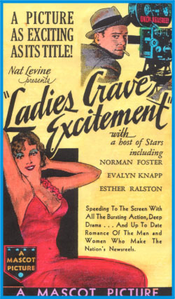 Low-res image of original poster for the film Ladies Crave Excitement (1935)